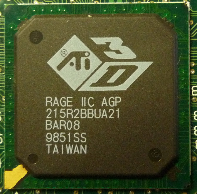 ATI "Rage IIC AGP" GPU